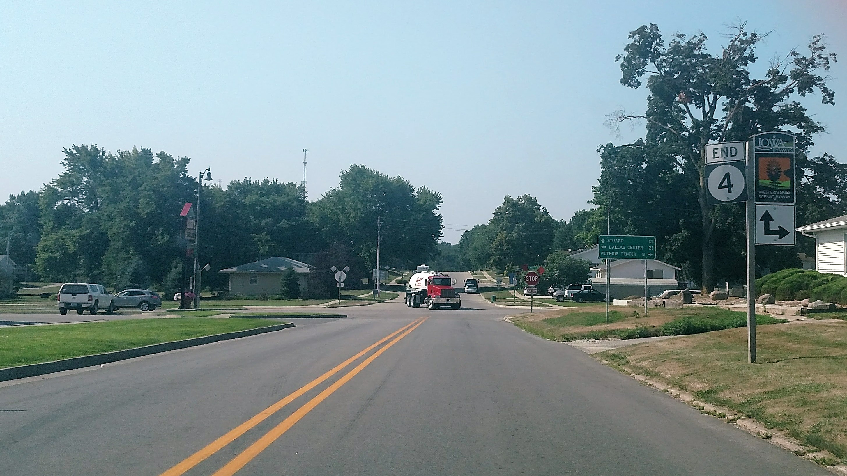 Highway 4 ends at Highway 44 and SE 3rd Street in Panora